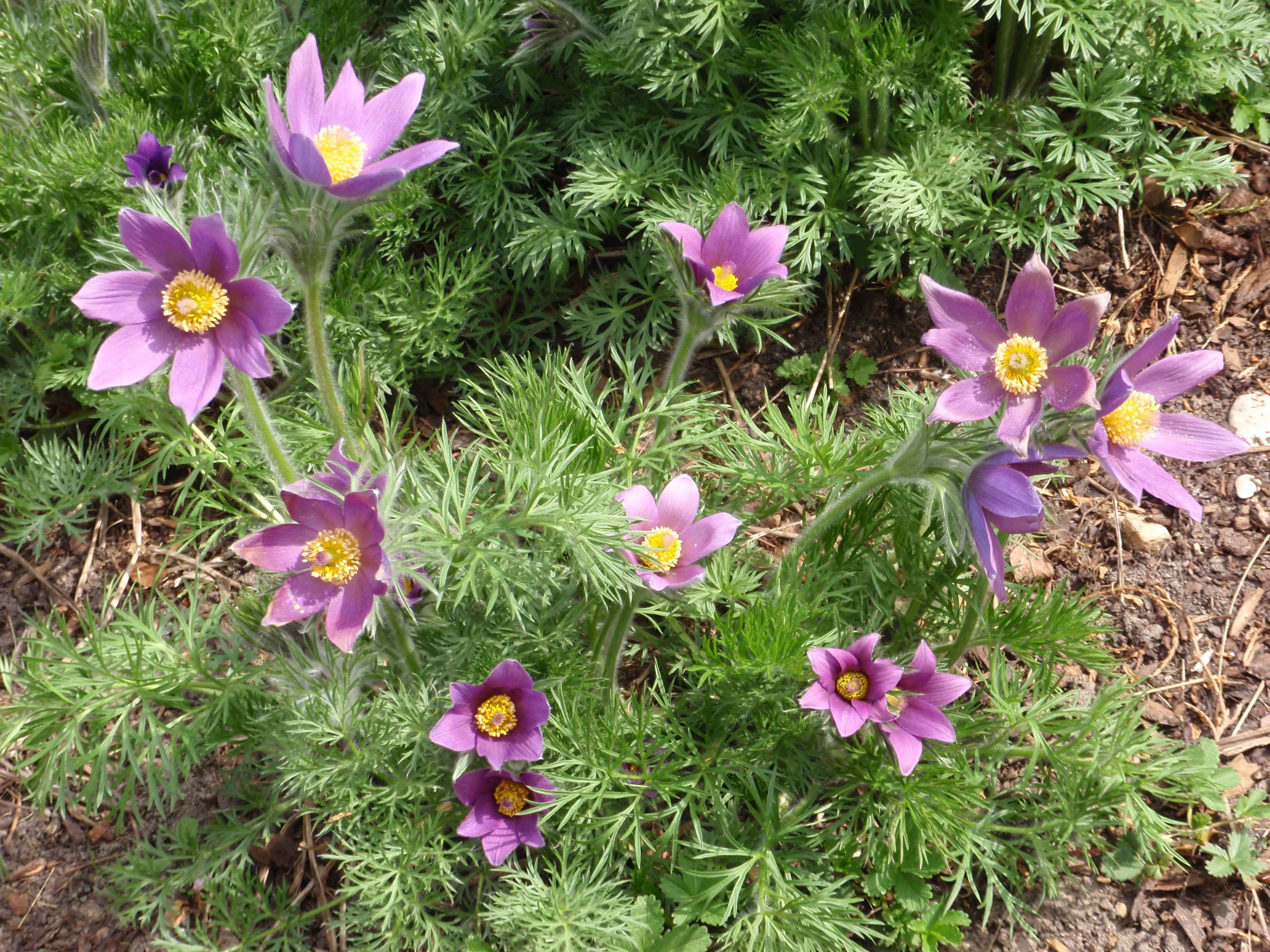 Pasque flower during april 2009 in the Luisenpark Mannheim (Germany)